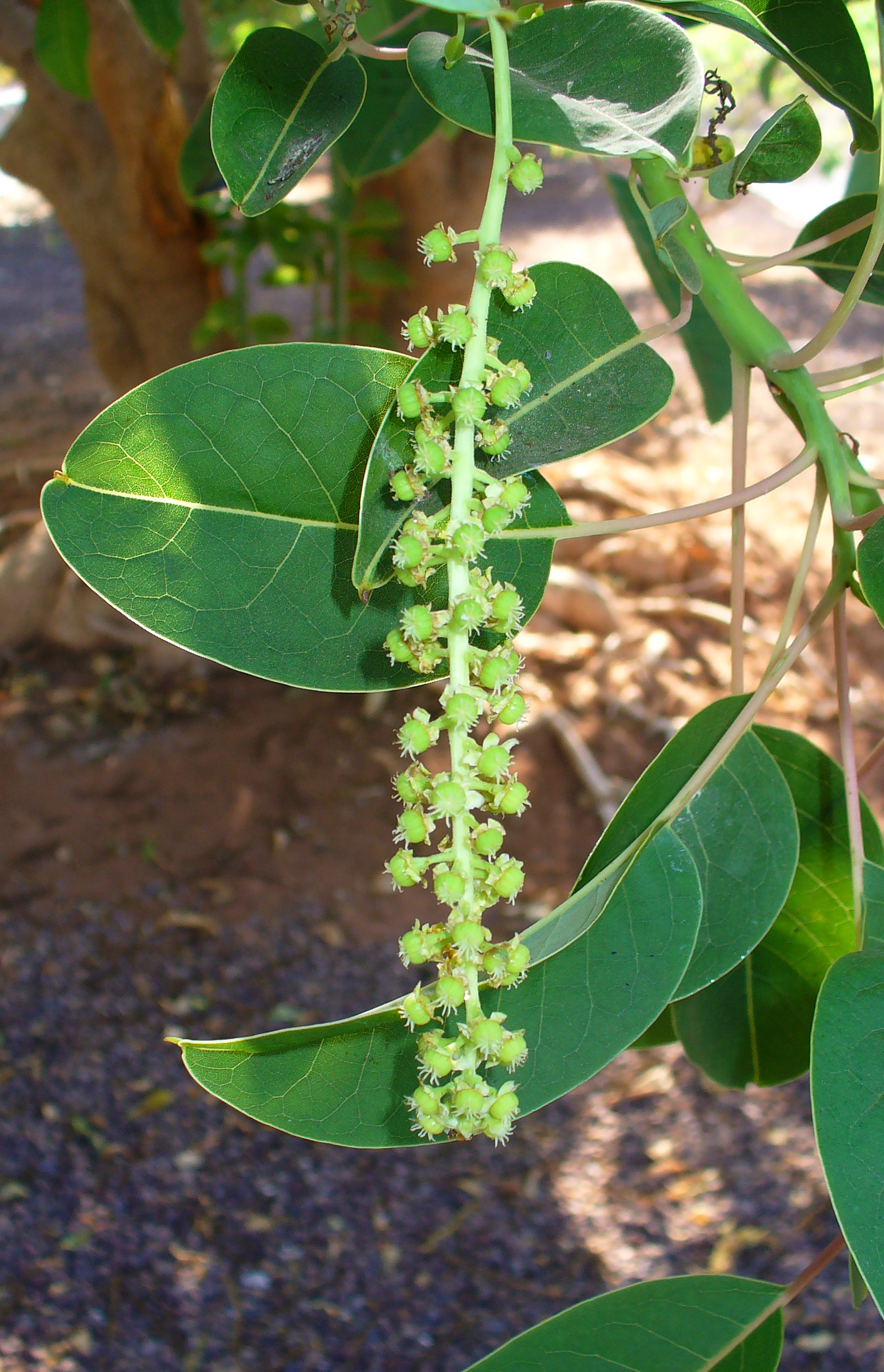 Ombú; beginning of fruit development; Botanical Garden Maspalomas, Gran Canaria, Canary Islands, Spain